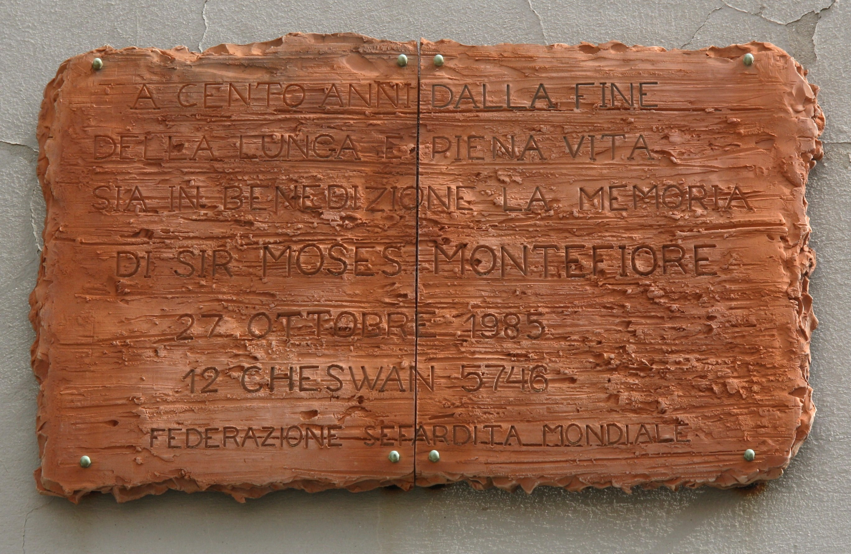 Italy, Livorno, Piazza Benamozegh. The memorial plaque, placed on the building of the Jewish Community, to commemorate the centenary of the death of Moses Montefiore.